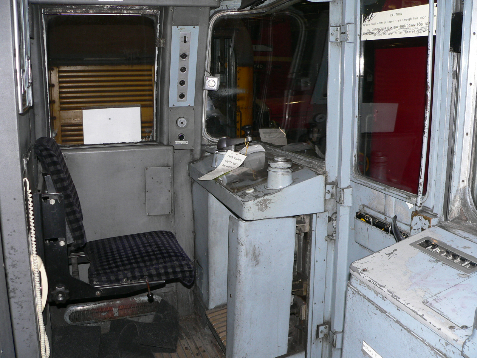 The cab of an unrefurbished mark I London Underground 1972 tube stock train, preserved at London's Transport Museum depot. Photographed on the 22 October 2005 open day.